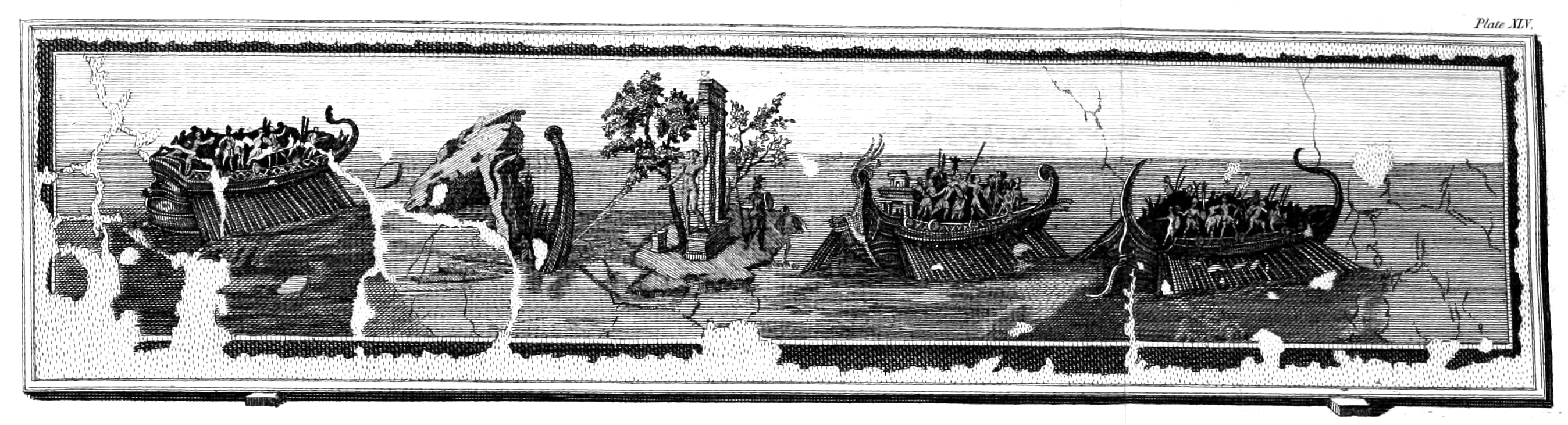 A Roman naval battle, engraved from an ancient painting in Herculaneum